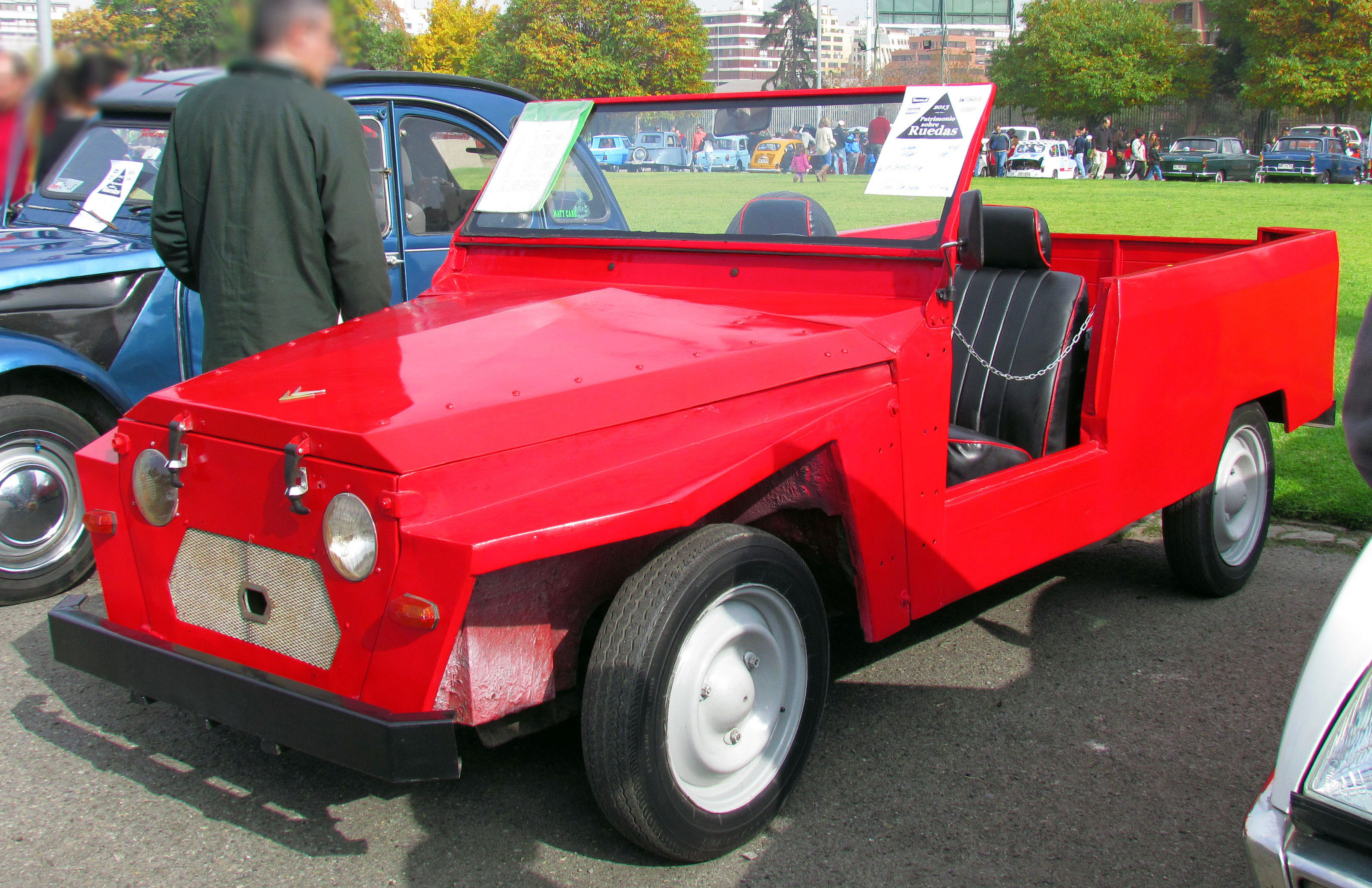 1974 Citroën Yagán at the Patrimonio sobre ruedas 2013 car show, Chile. This was Chile's version of the Citroën FAF, with extremely simple bodywork. Definitely non-standard seats, and it looks as if the double chevrons are mounted upside down.